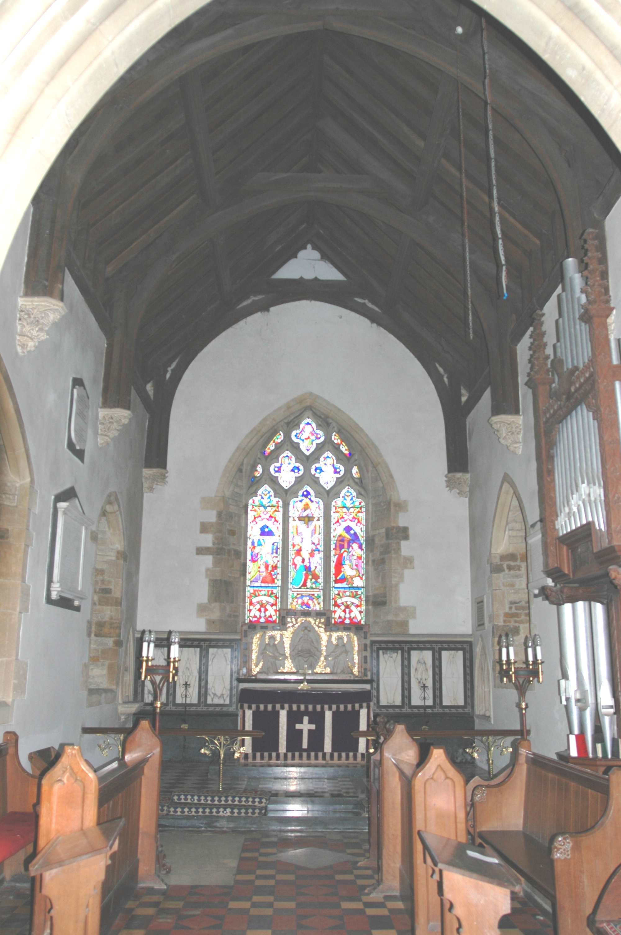 Church of England parish church of St Leonard & St James, Rousham, Oxfordshire: chancel